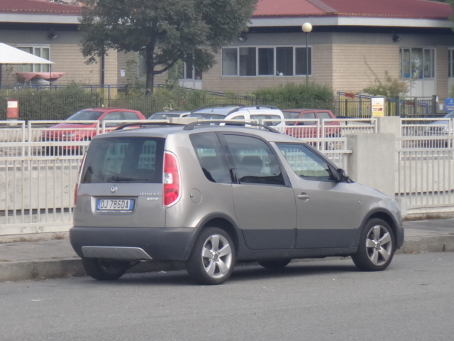 While here in Australia we get the regular Roomster, we don't get this version. Sales are tiny, to the point Skoda is lucky to only sell a few hundred here every year. I don't think there is anything wrong with the actual car, it's just the polarising styling of the car that put most people off.